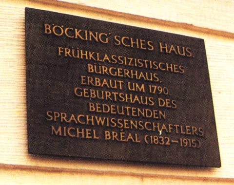 Portrait: commemorative tablet at birthhouse Michel Bréal, privat photography No restrictions on use Copyright: free of charges Credit: private